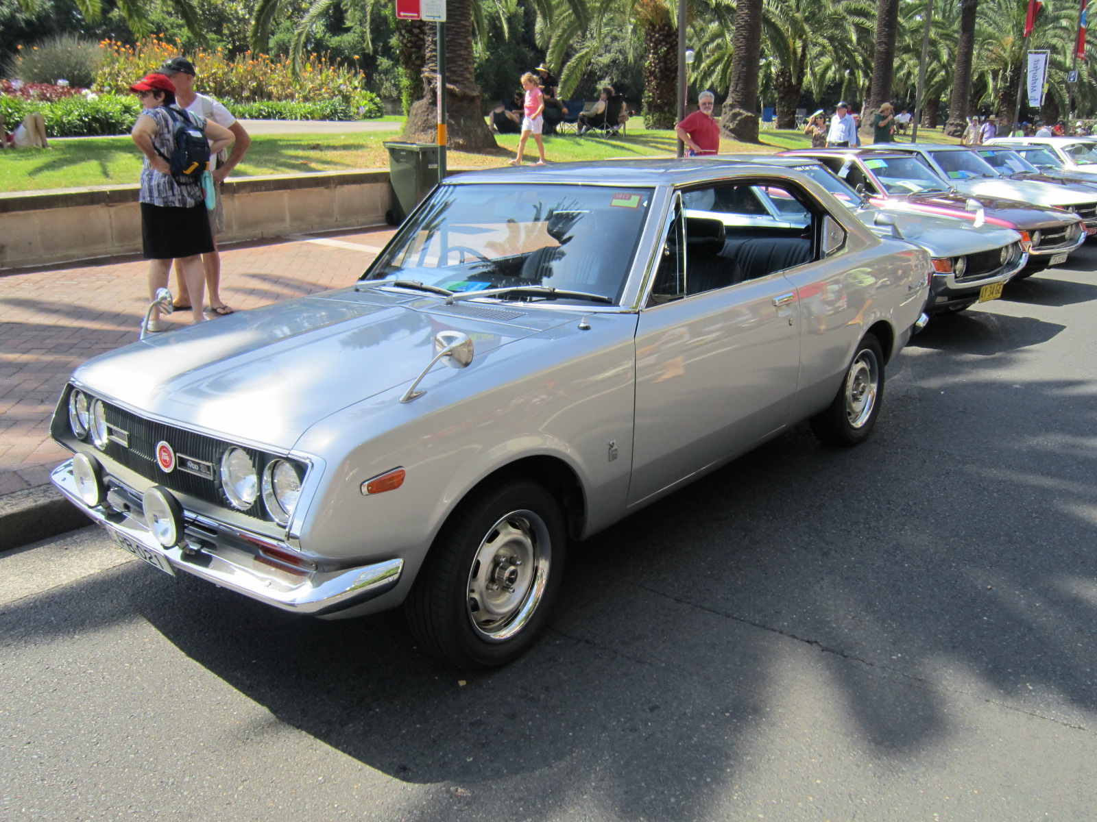 Toyota Corona Mark II RT72